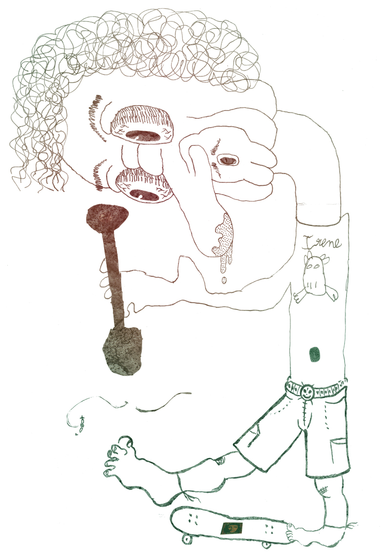 A Cadavre exquis (Exquiste Corpse) by Marc M. Gustà, Bernat M. Bustà and Irene Alcón. 2011.